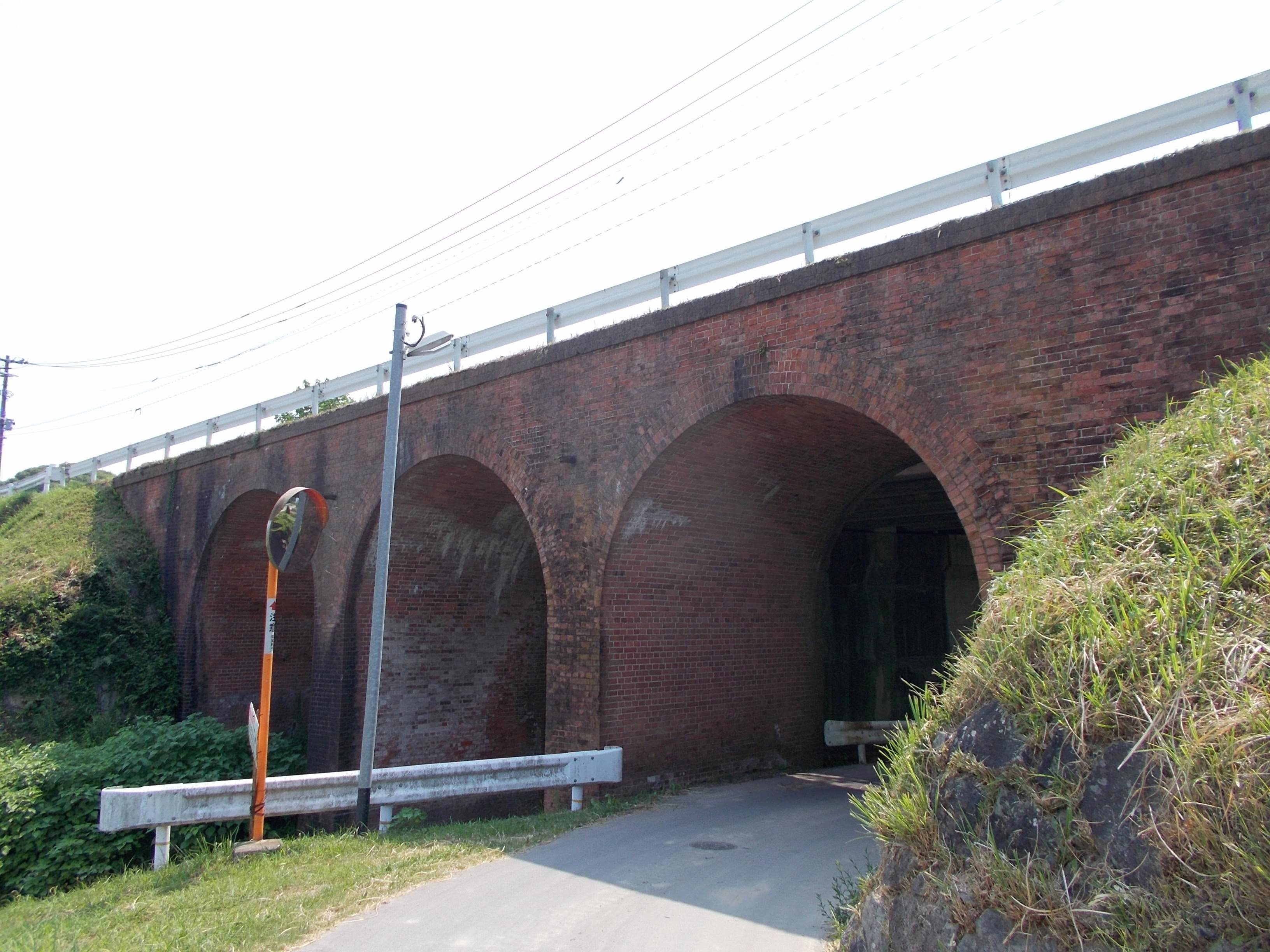 The Former Kyushu Railway Kiyama Triple Bridge is a registered tangible cultural property of Japan in Chikushino, Fukuoka. The bridge, open in 1889, was used as a part of the Kagoshima Main Line, but later the route was relocated approximately 200 meters to the east for the purpose of gradient improvement and double tracking. It is now used as a prefectural road bridge.